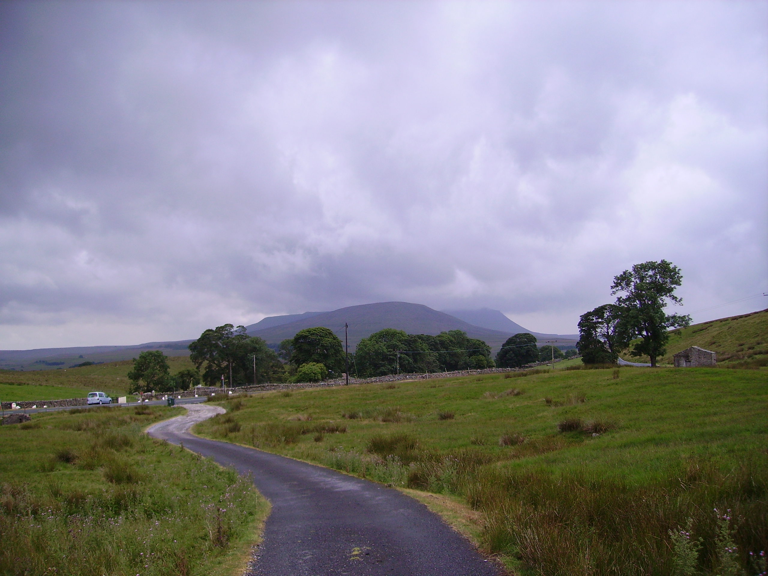 waterfall in North Yorkshire, United Kingdom